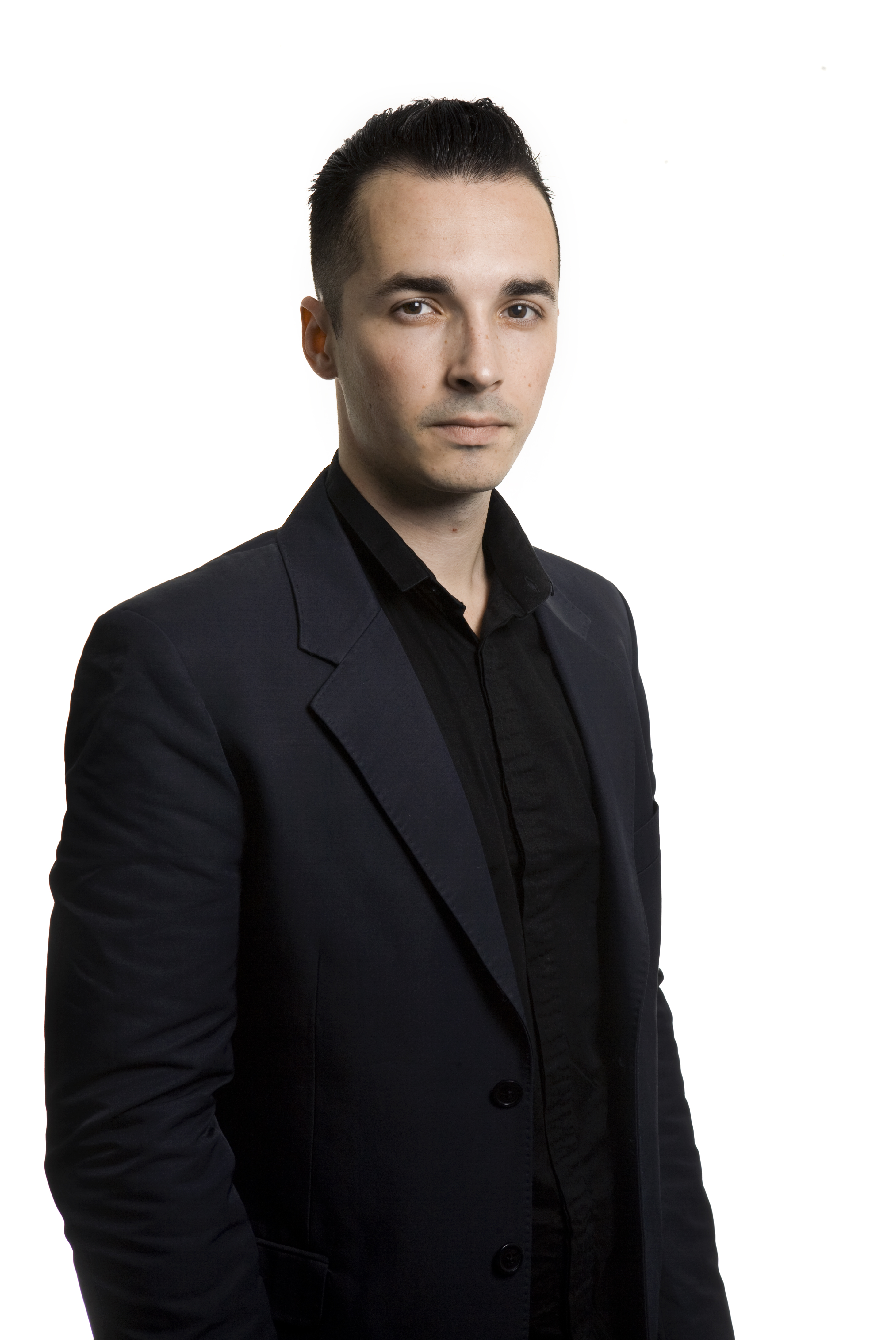 Portrait of Adam Cwejman